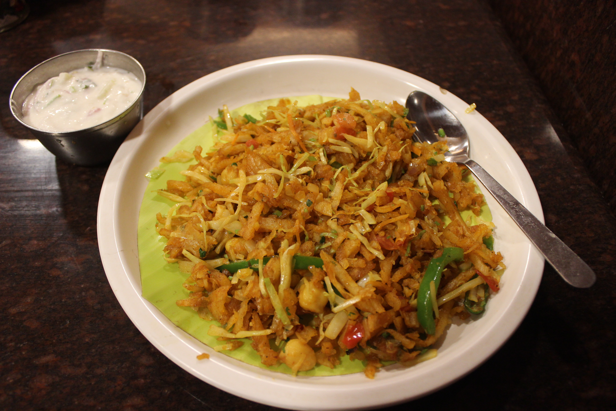 Veg Kothu Parotta served in Tamil Nadu